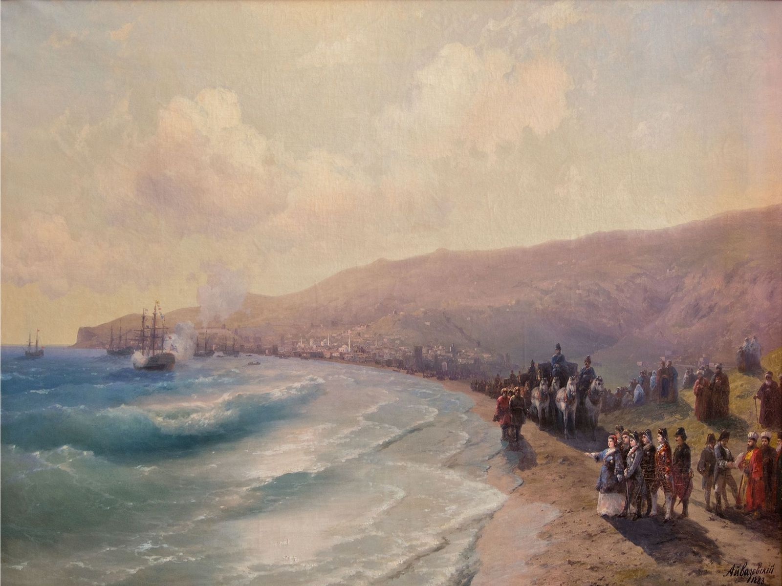 Arrival of Catherine II in Feodosia during 27th may 1787, directly following the Russian annexation of Crimea in 1783.